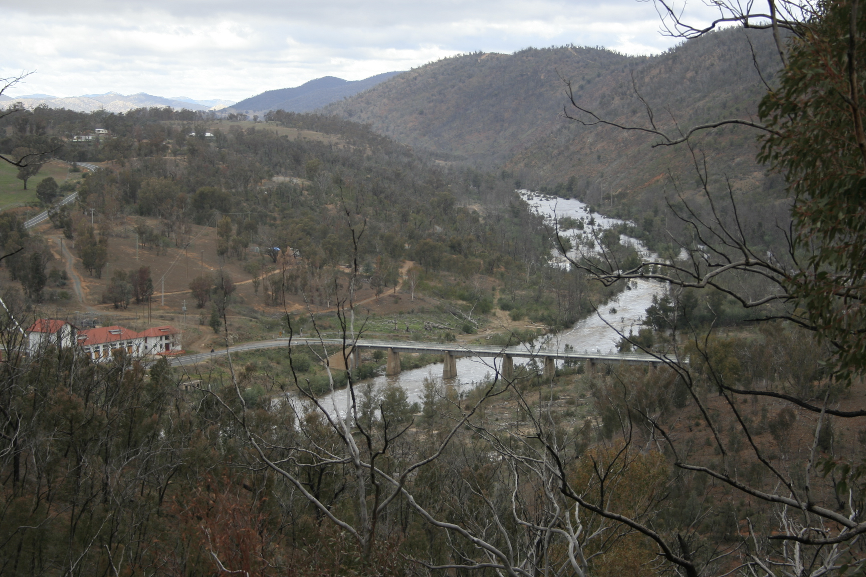 Confluence of Murrumbidgee and Cotter rivers